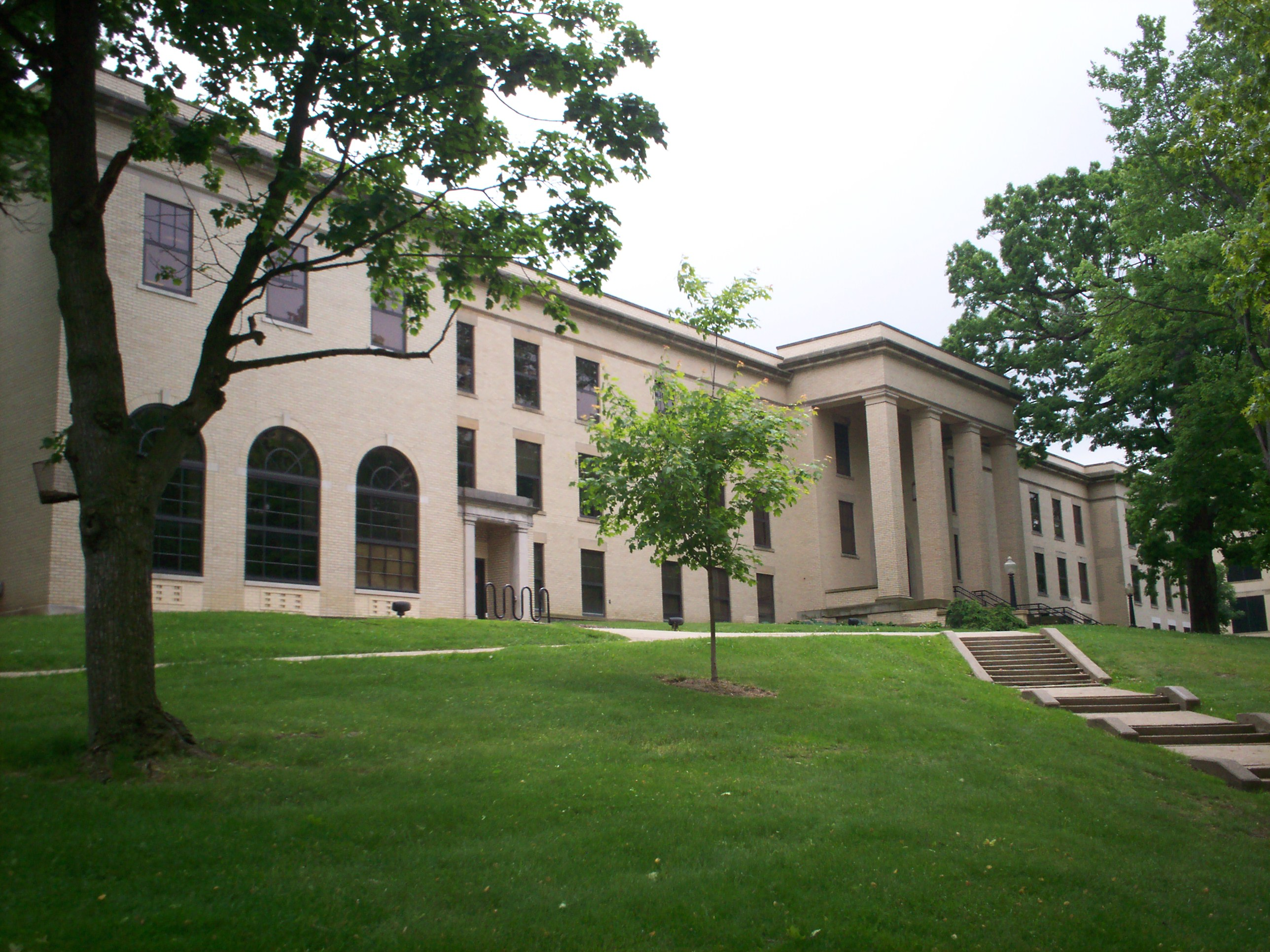 View of Lowry Hall, one of the oldest buildings on the campus of Kent State University in Kent, Ohio. Built in 1913, it is named after John Hamilton Lowry, who sponsored the bill that created Kent State University. Briefly known as Walden Hall, it originally served as a women's dormitory, but is today used as home for a variety of academic departments.